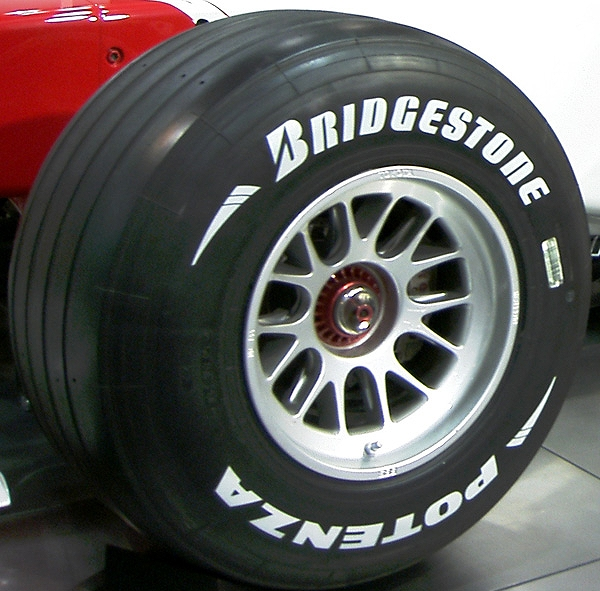 “Bridgestone_Potenza_Formula_One_Tire” ToyotaAmlux,Show room Tokyo, Japan Category:Bridgestone